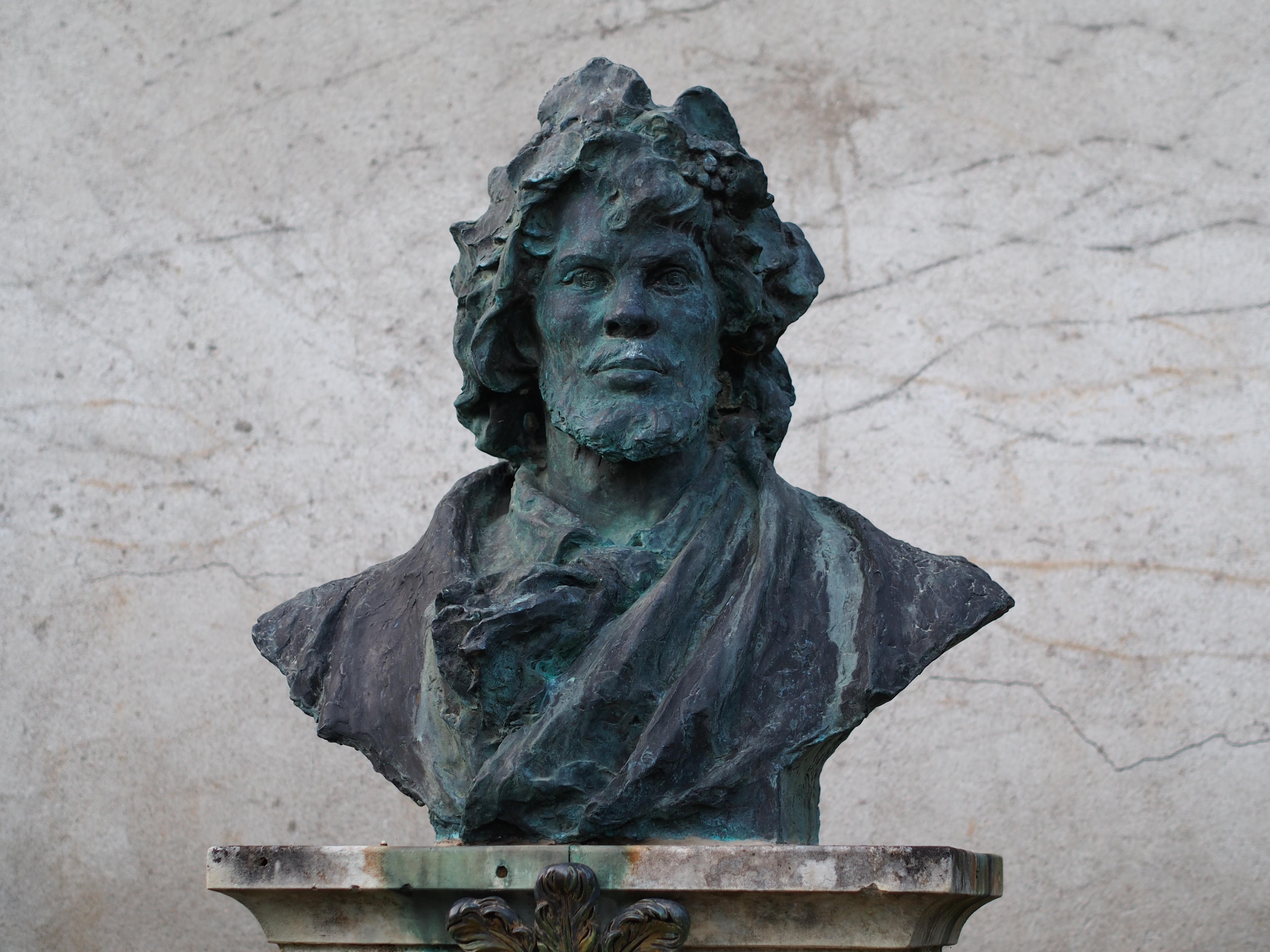 Bust of Raymond Lafage (1656-1684), sculpted in 1898 by Jean Rivière (1853-1922) ; the bronze is now in his birthplace i.e. Lisle-sur-Tarn near Toulouse, (France).